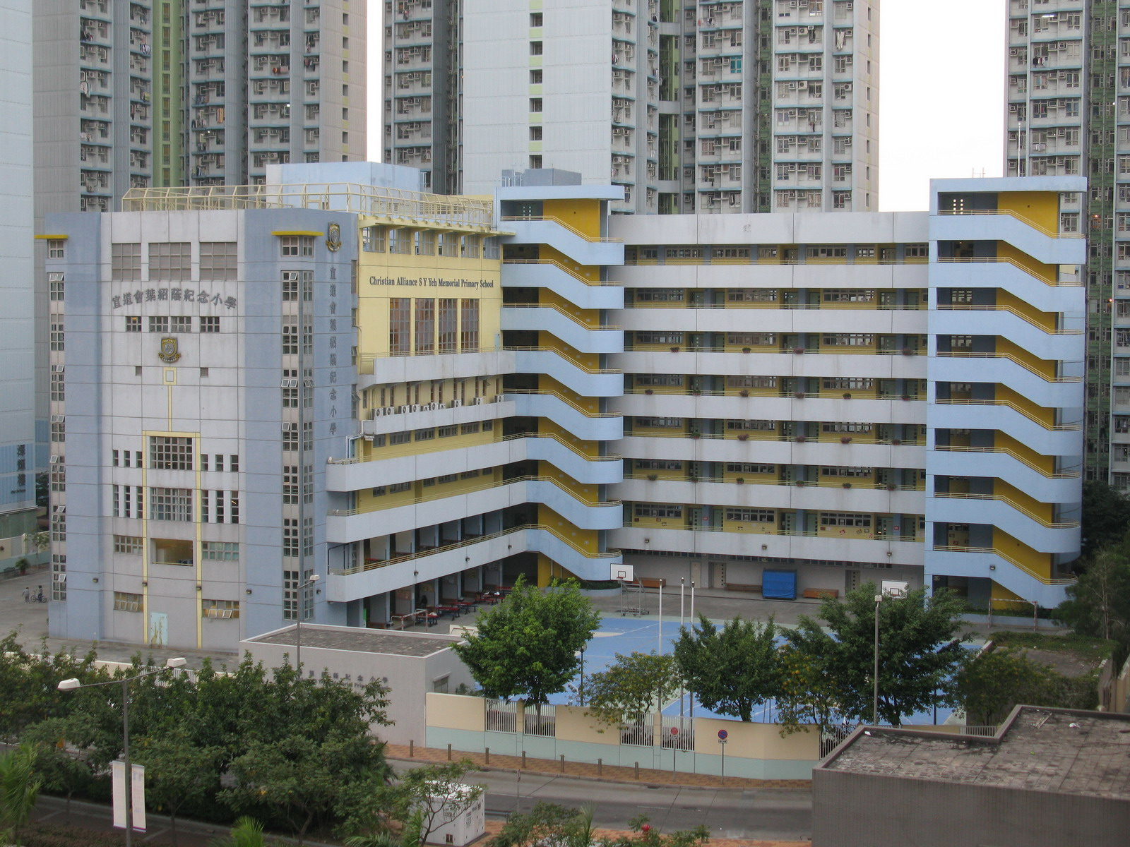 Christian Alliance S.Y. Yeh Memorial Primary School